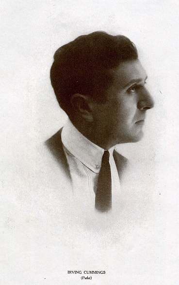 Irving Cummings in Motion Picture Magazine May 1914